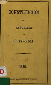 Cover Constitución Política de Costa Rica de 1869